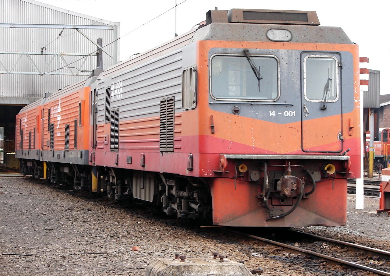 Spoornet Class 14E 14-001 Builder's Number: HST 16657-1-3/1988 Location: Bellville, Cape Town